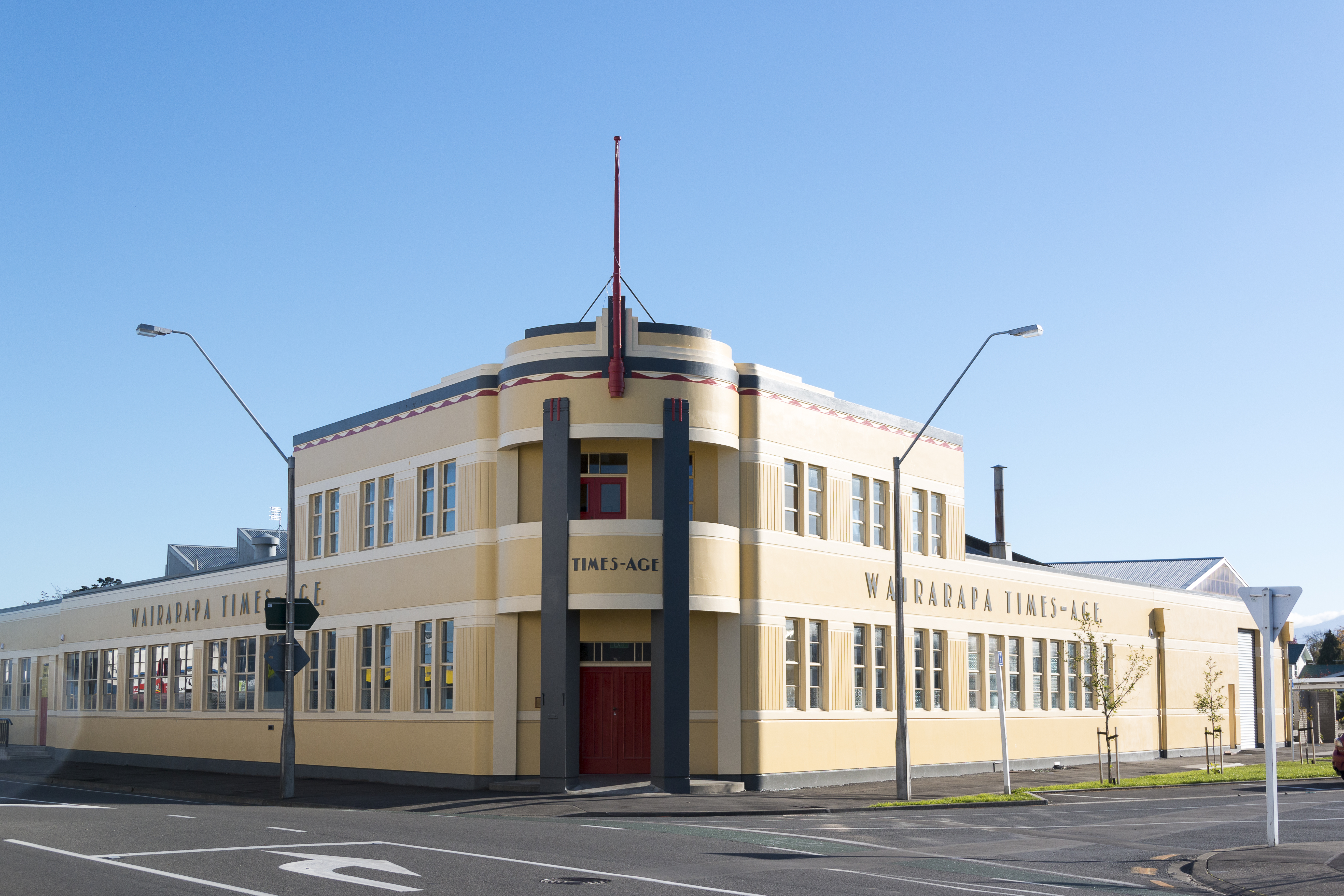 Art Deco style building, for many years the home of the Local Newspaper in Masterton, New Zealand.